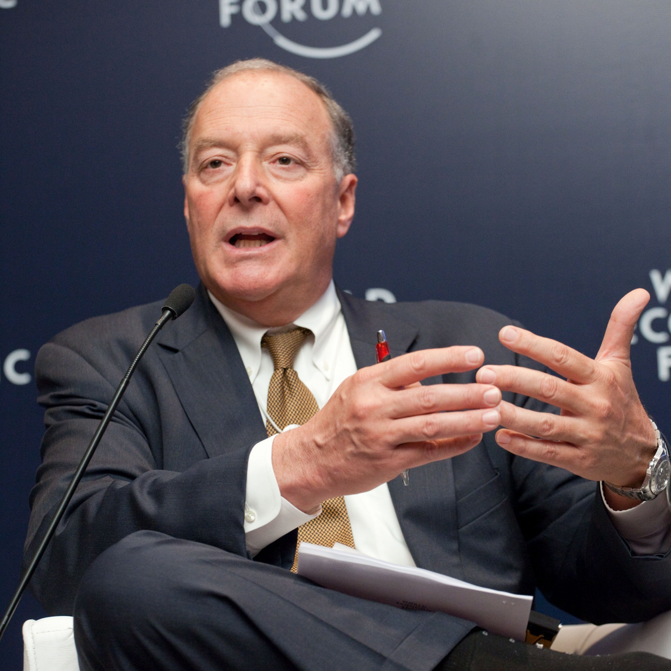 RIO DE JANEIRO/BRAZIL, 29APR11 - William D. Green, Chairman, Accenture, USA, captured during the World Economic Forum on Latin America in Rio de Janeiro, Brazil, April 29, 2011. Copyright World Economic Forum /Photo by Bel Pedrosa